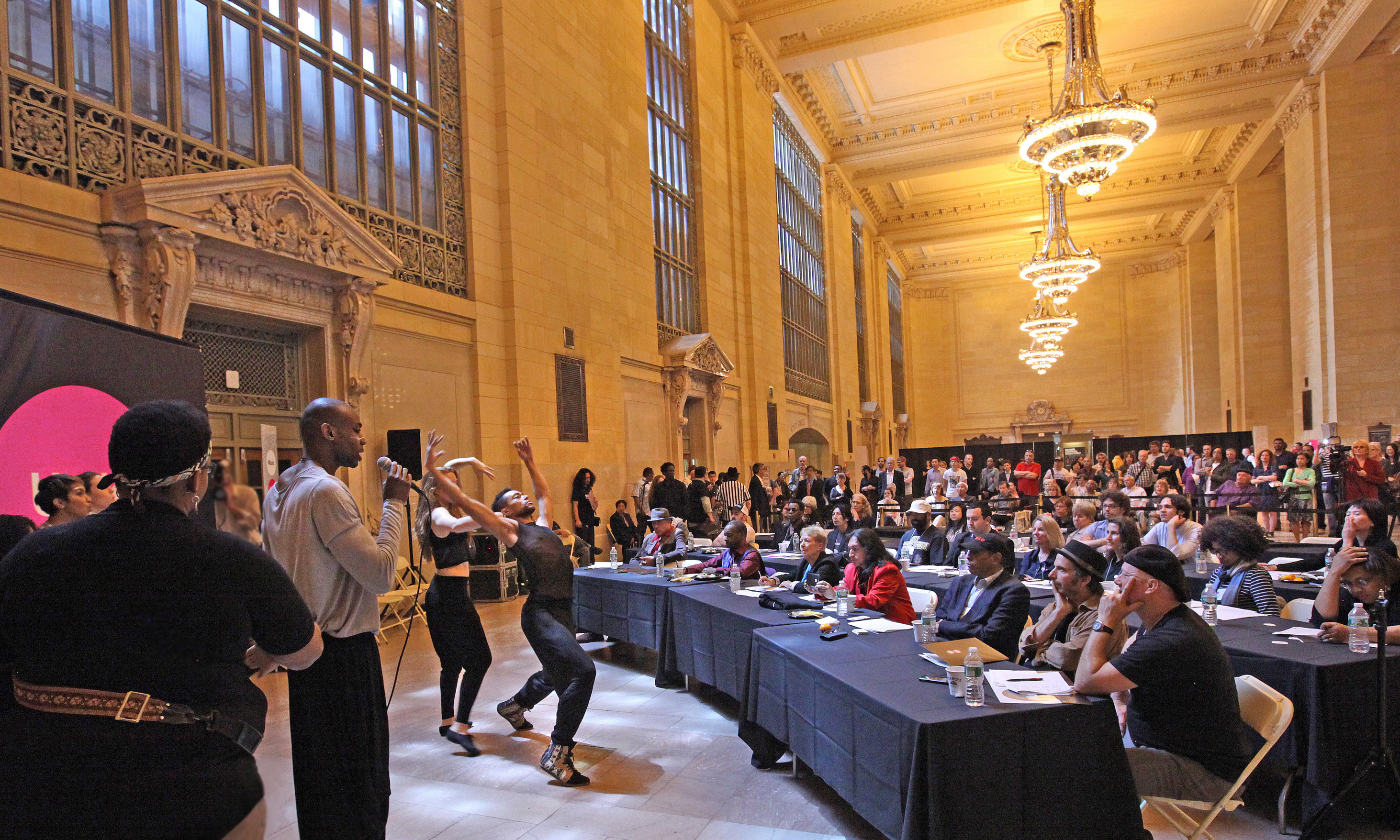 A selection of 60 soloists and groups performed in Grand Central Terminal Tuesday during the Metropolitan Transportation Authority’s 27th annual auditions for its Music Under New York program. The auditions were held to add new talent to the program, which is administered by MTA Arts for Transit & Urban Design (AFT) and presents more than 7,500 performances annually in the MTA’s subways and railroads. Photo: MTA Arts For Transit / Rob Wilson